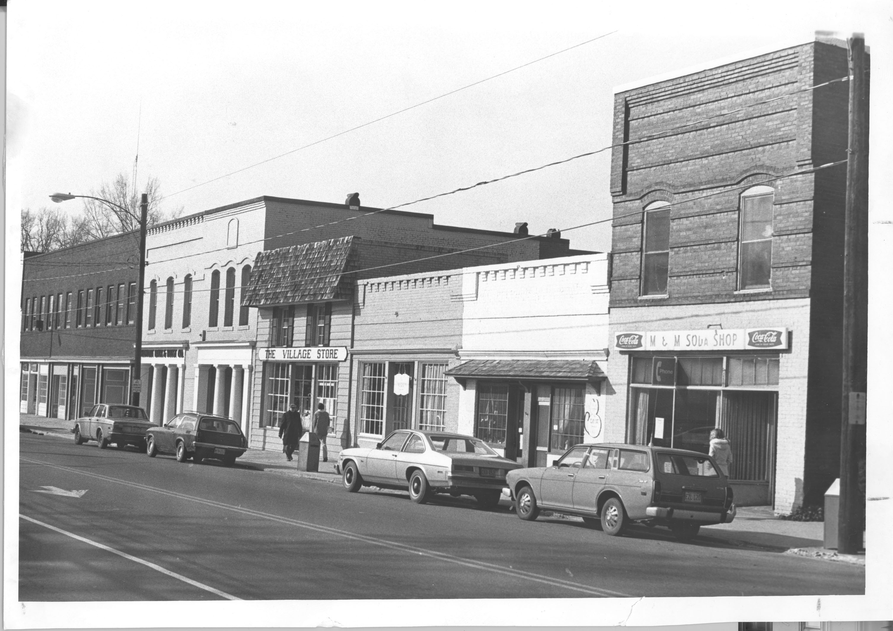 Davidson Historic District, Bounded by N. Main and Beaty Sts., Catawba Ave., Mocks and Concord Rds., Pat Stough and Dogwood Lns., Davidson College Davidson